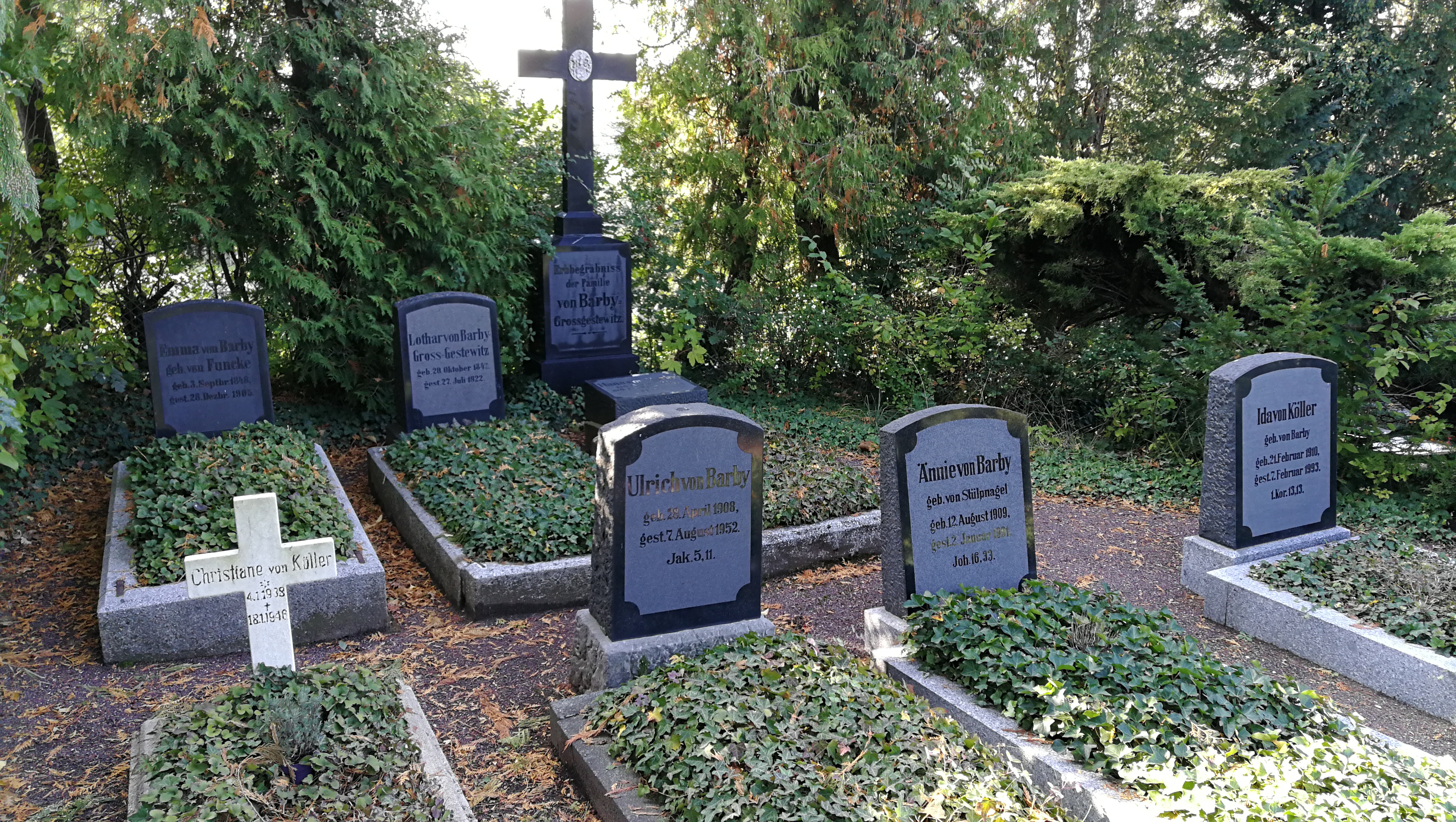 Funeral of the von-Barby-Family at the cemetery of Grossgestewitz